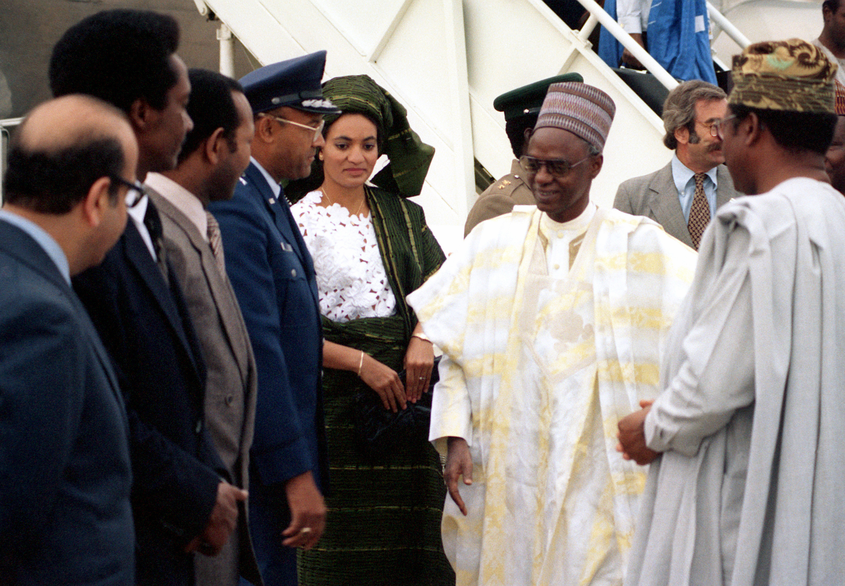 President Sharari of NIGERIA is greeted by BGEN Archer Durham upon his arrival for a visit. Location: ANDREWS AIR FORCE BASE, MARYLAND (MD) UNITED STATES OF AMERICA (USA)